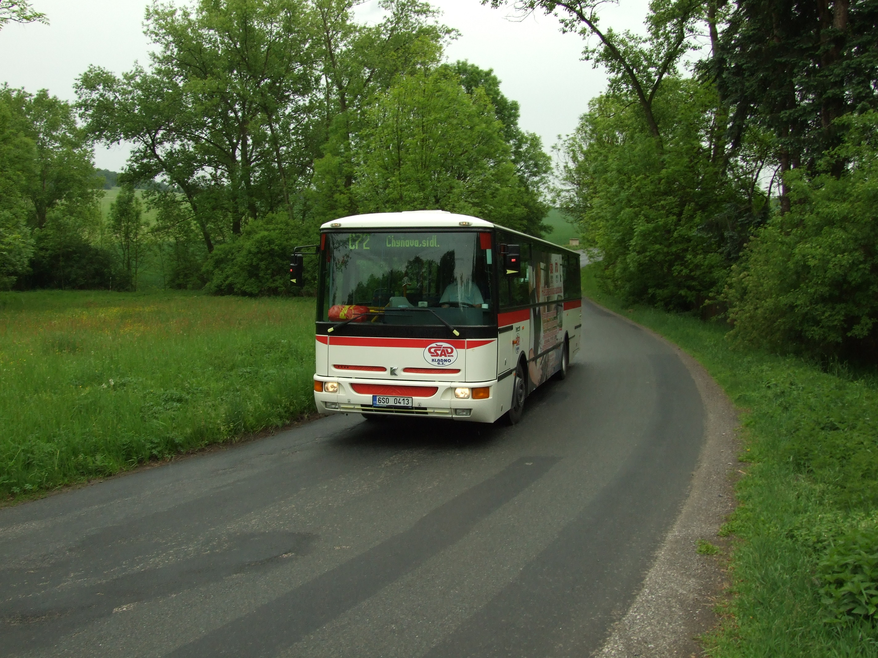 Bus near Železná village in Beroun district of Central Bohemian region, CZ